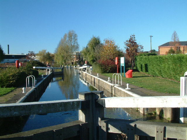 Ware Lock on the River Lee Navigation at grid reference TL351143 in Ware, Hertfordshire.